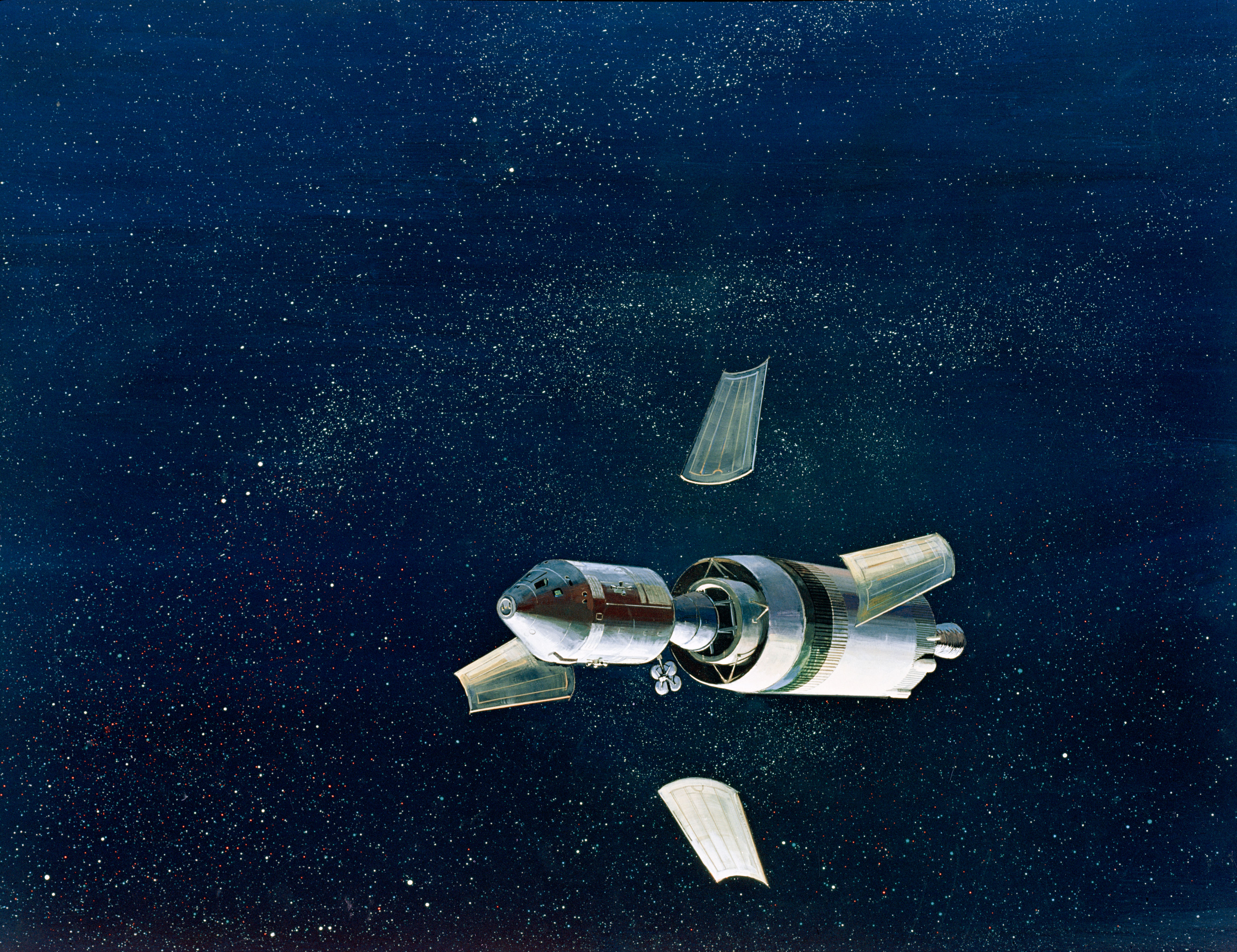 This image is an artist's conception of the Saturn V Spacecraft/Lunar Module Adapter panels separating from the S-IVB stage prior to the astronauts performing the transposition and docking maneuver to extract the Lunar Module in preparation for a lunar landing. Since the crew were facing away from the S-IVB stage at the time, this is something that was never actually photographed. Note that the image actually shows Apollo 8, which was the first manned Saturn V launch, the first mission to separate the SLA panels from the S-IVB, and didn't carry a real Lunar Module. Instead a mockup of similar size and weight distribution was installed in the S-IVB: without it the weight of the Saturn V would have been outside normal limits, which would have affected the trajectory and stresses on the rocket stages.